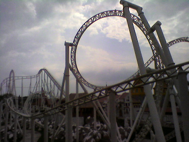 Roller coaster in Xetululu, Guatemala